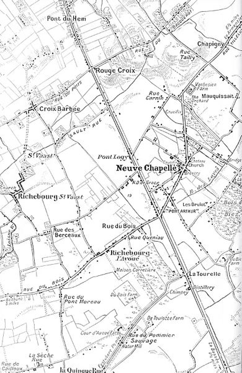 ap showeing the terrain in the vicinity of Neuve Chapelle, 1914-1915